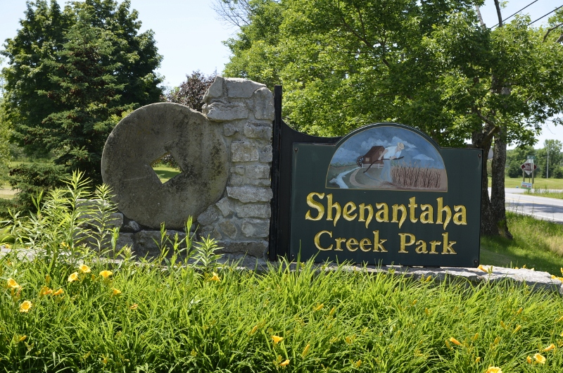 Shenantaha Creek Park mail sign entrance